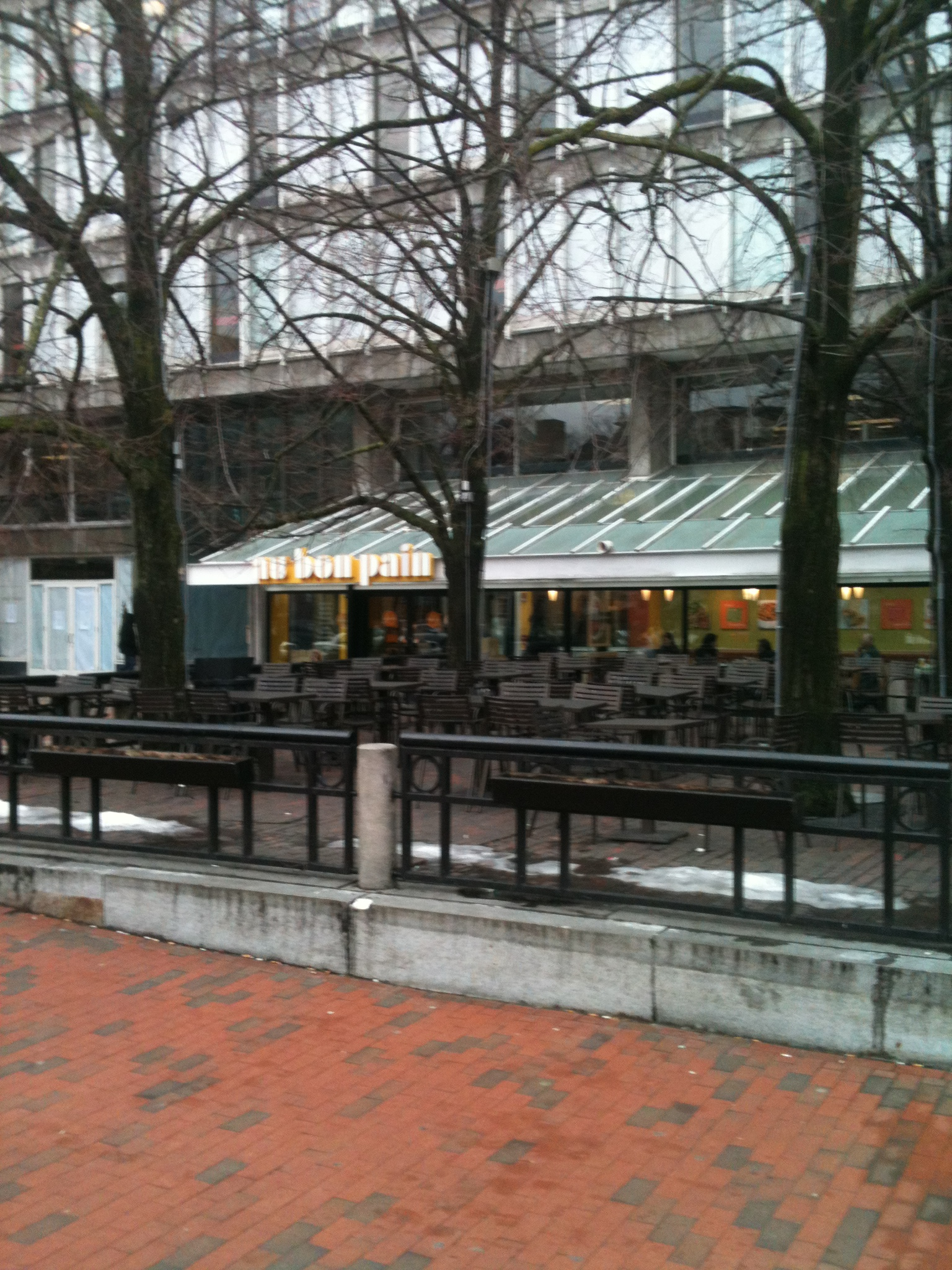 Au Bon Pain, Cambridge, MA. This location was featured in the 1997 film Good Will Hunting